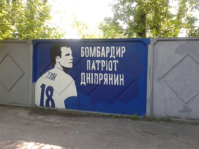 Dnipro Training Base in Dnipro, Ukraine